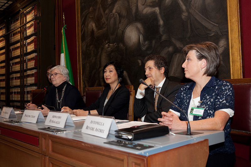 Evento di Proiezione di "33 postcards" alla Camera dei Deputati